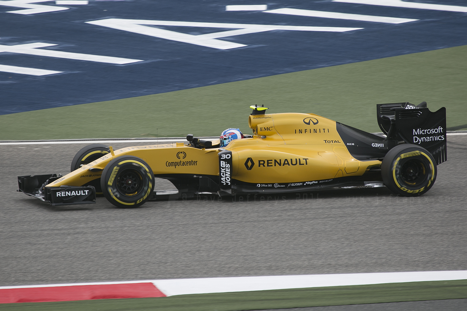 Jolyon Palmer at the 2016 Bahrain Grand Prix